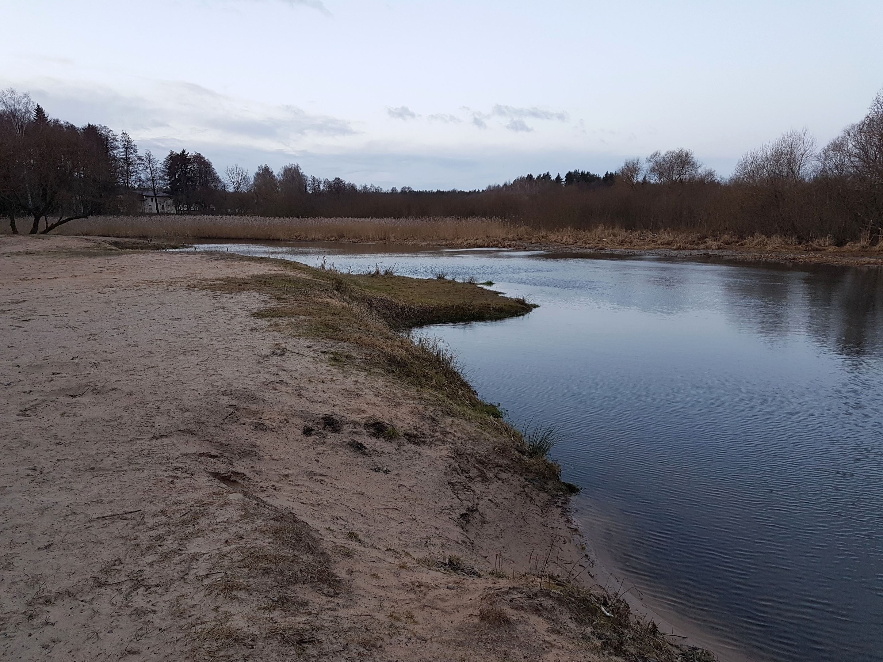 Plisa river (tributary of Berezina) near Zaliessie village, Barysaw district, Belarus